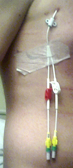 Hickman line